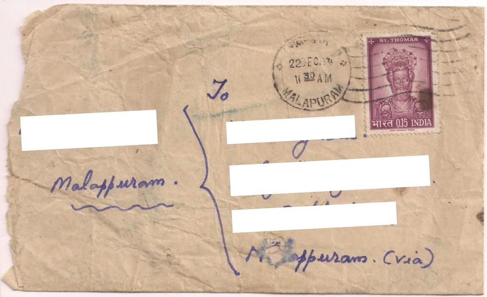 Stamp of 15 paise issued by India Post in the 1950s